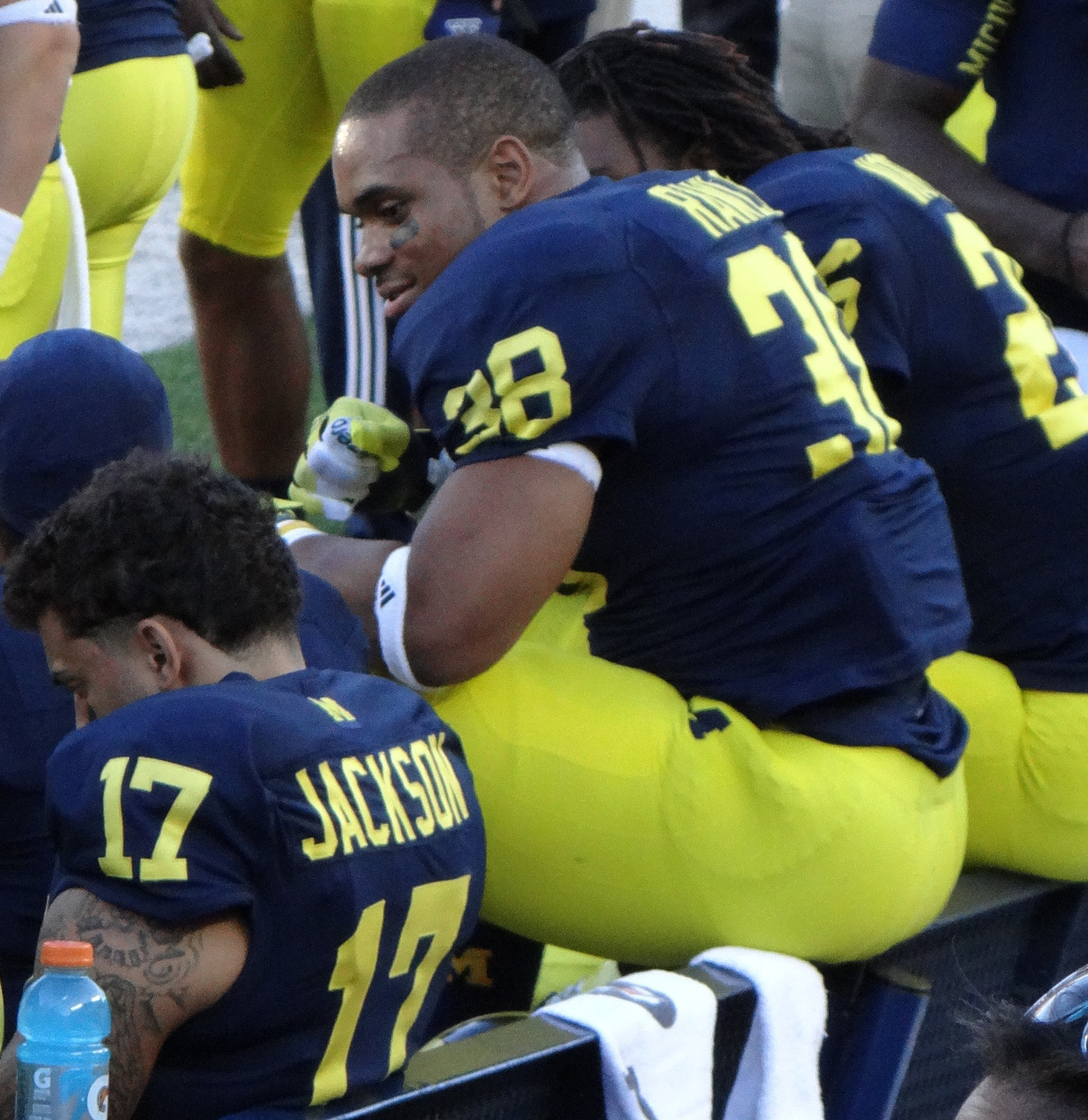 Michigan running back Thomas Rawls and wide receiver Jeremy Jackson